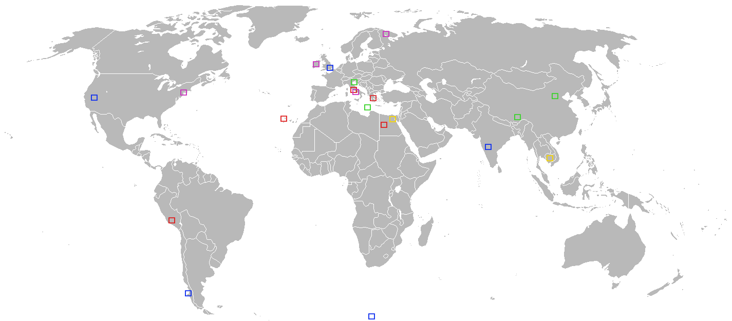 Map indicating places visited by Lara Croft during the first five computer games: Tomb Raider Tomb Raider II Tomb Raider III Tomb Raider: The Last Revelation Tomb Raider: Chronicles